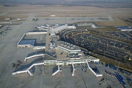 Budapest, district XVIII, Hungary, aerial photography